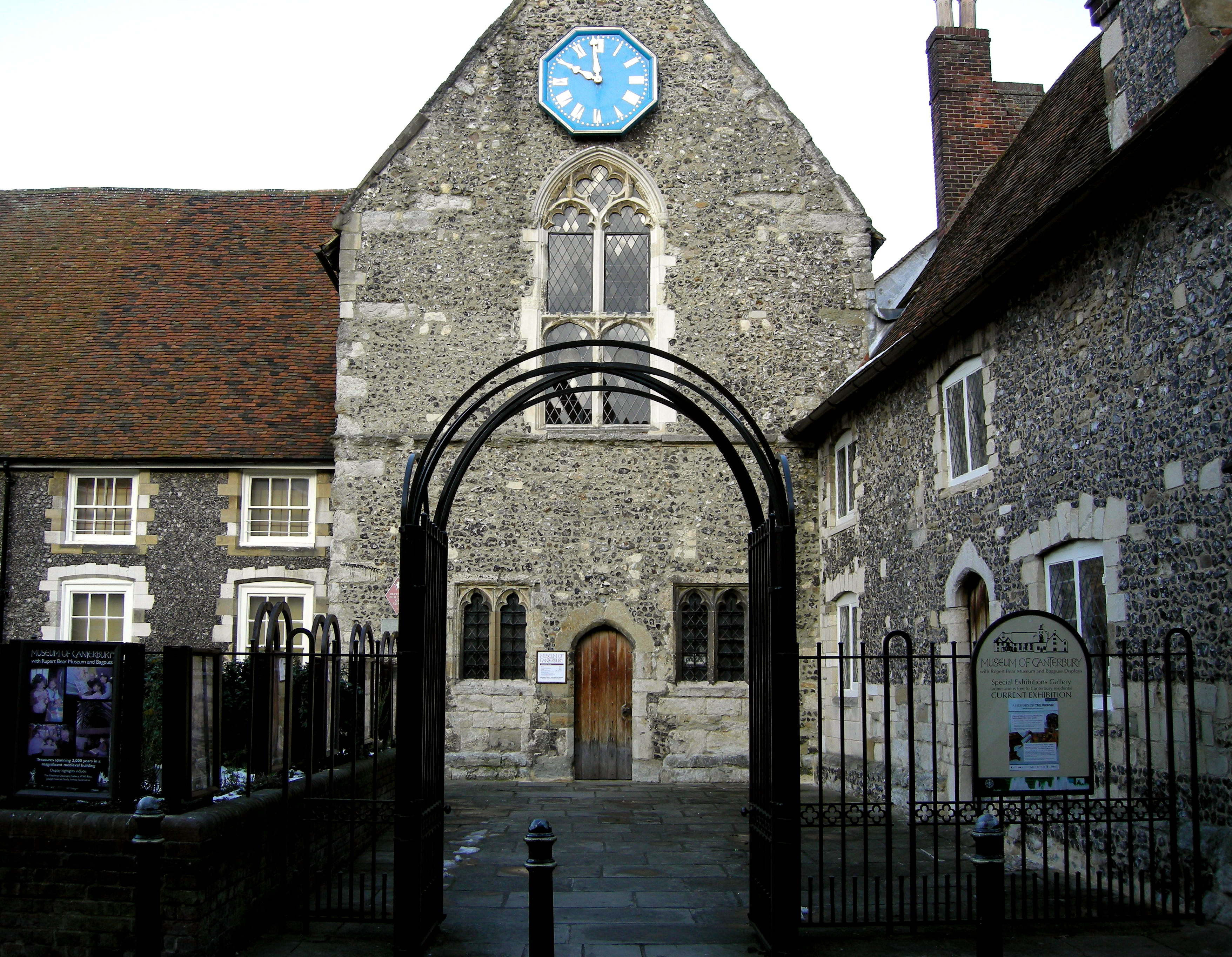 Museum of Canterbury, Stour Street, Canterbury, Kent. It contains a gallery dedicated to Rupert the Bear.